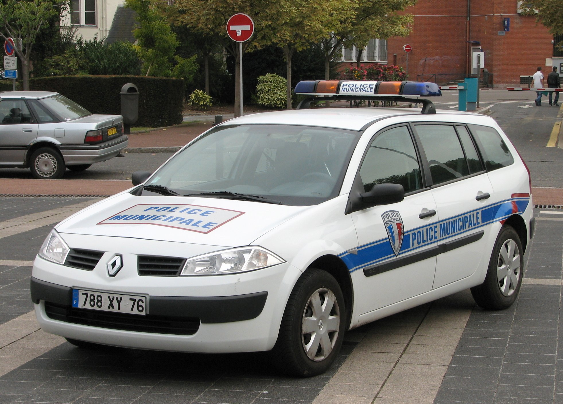 Renault Megane estate - Police Municipale (local police). Silver Rover 400 parked in the background.